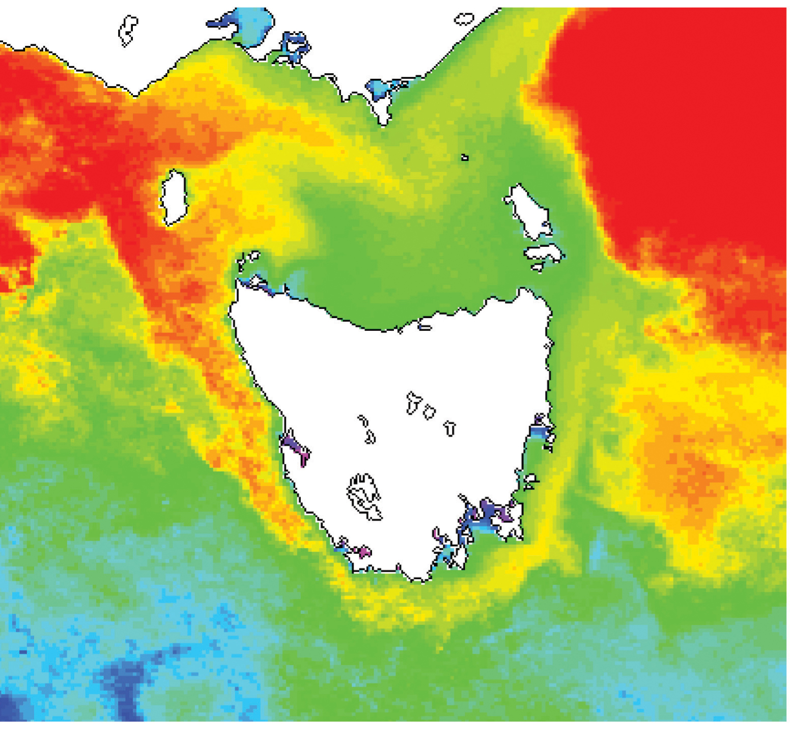 In 2009, Tasmania's east coast recorded its highest-ever winter water temperatures of more than 13ºC – up to 1.5ºC above normal – due to a strengthening of an ocean current originating north of Australia. Satellite imagery gave oceanographers an insight into a remarkable phenomenon – a significant extension of the Leeuwin Current curling around the southern tip of Tasmania and reaching as far north as St Helens. The Leeuwin Current forms north of Australia and flows right around the western half of the country, meeting its better known cousin, the East Australian Current (EAC), at Tasmania. The exact location of this meeting point varies both seasonally and from year-to-year, depending on how strongly each current is flowing. Oceanographers believe the EAC has gradually been getting stronger, and the Leeuwin Current weaker. Changes in the EAC are among the most significant in the global ocean, with a continuous record of monthly measu